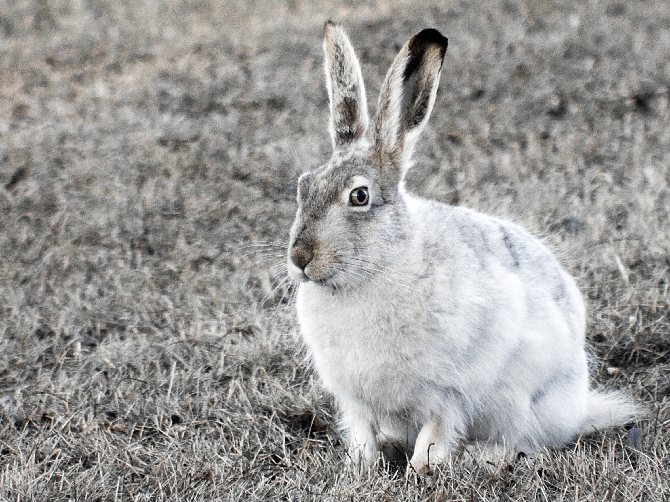 White-tailed Jackrabbit, picture taken in Edmonton, Alberta.